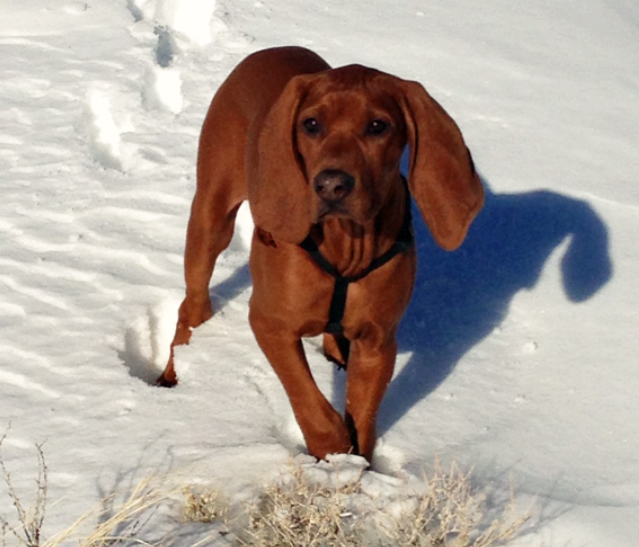 Adolescent Bloodhound the snow